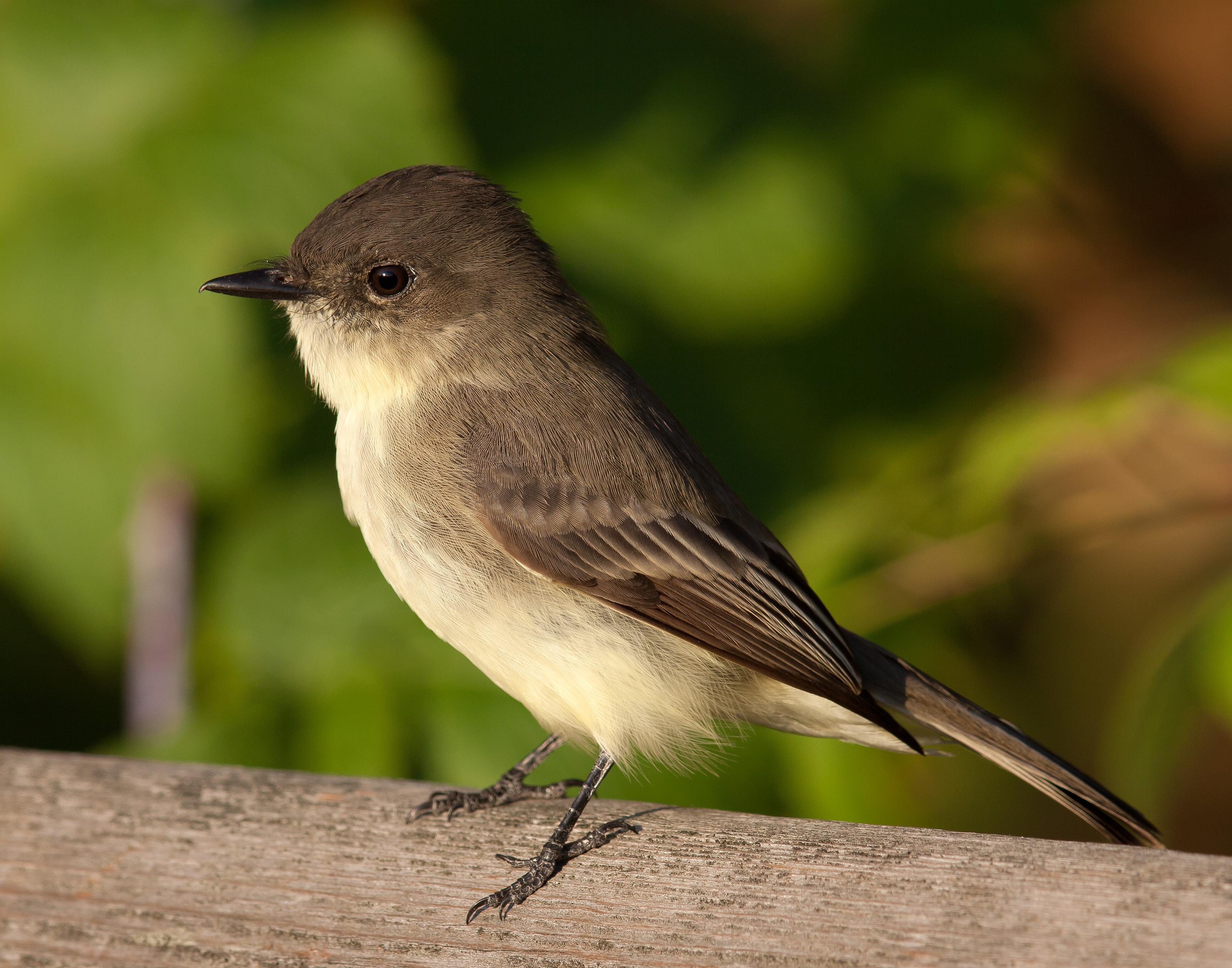 A Eastern Phoebe at Owen Conservation Park, Madison, Wisconsin, USA.